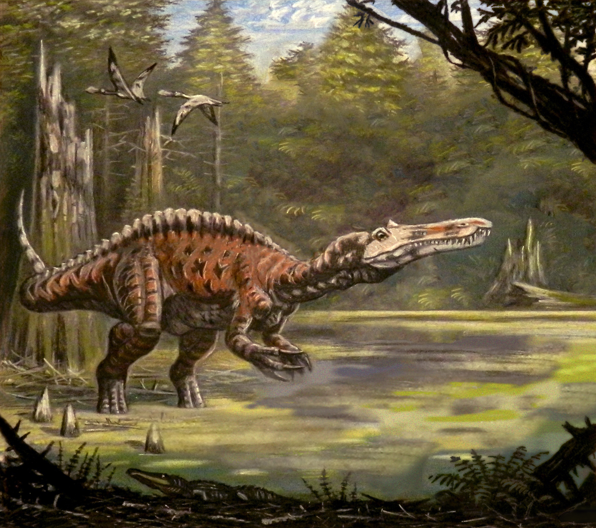 Life restoration of Suchomimus tenerensis